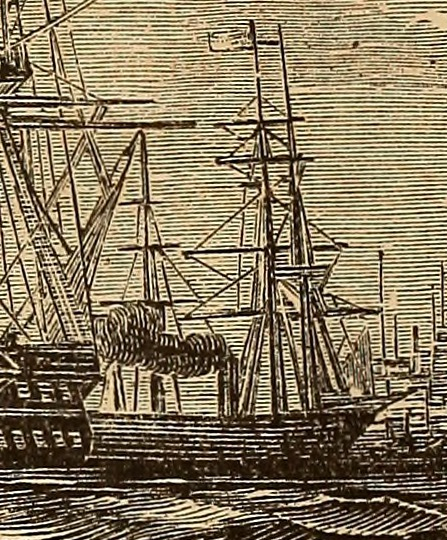 Title: The frozen zone and its explorers; a comprehensive record of voyages, travels, discoveries, adventures and whale-fishing in the Arctic regions for one thousand years Year: 1874 (1870s) Authors: Hyde, Alexander, 1814-1881 Baldwin, Abraham Chittenden, 1804-1887, joint author Gage, William Leonard, 1832-1889, joint author Shields, Charles W. (Charles Woodruff), 1825-1904 Subjects: Kane, Elisha Kent, 1820-1857 Polaris (Ship) Publisher: Hartford, Conn. (etc.) Columbia book company Text Appearing Before Image: nding the Rescue. Passed Midshipman—Robert R. Carter, actmg master and first officer. - Boatswain—Henry Brooks, second officer. Benjamin Vreeland, M.D., assistant surgeon. About one oclock on the 2 2d of May, the asthmaticold steam-tug that was to be our escort to the seamoved slowly off. Our adieux from the Navy Yardwere silent enough. We cost our country no compli-mentary gunpowder; and it was not until we gotabreast of the city that the crowded wharves andshipping showed how much that bigger communitysympathized with our undertaking. Cheers and hur-ras followed us till we had passed the Battery, andthe ferry-boats and steamers came out of their trackto salute us in the bay. The sky was overcast before we lost sight of thespire of old Trinity; and by evening it had cloudedover so rapidly, that it was evident we had to look fora dirty night outside. Off Sandy Hook the wind fresh-ened, and the sea grow so rough, that we were forcedto part abruptly frouL the friends who had kept us Text Appearing After Image: USS ADVANCE AND USS RESCUE AT NAVY YARD in 1850.